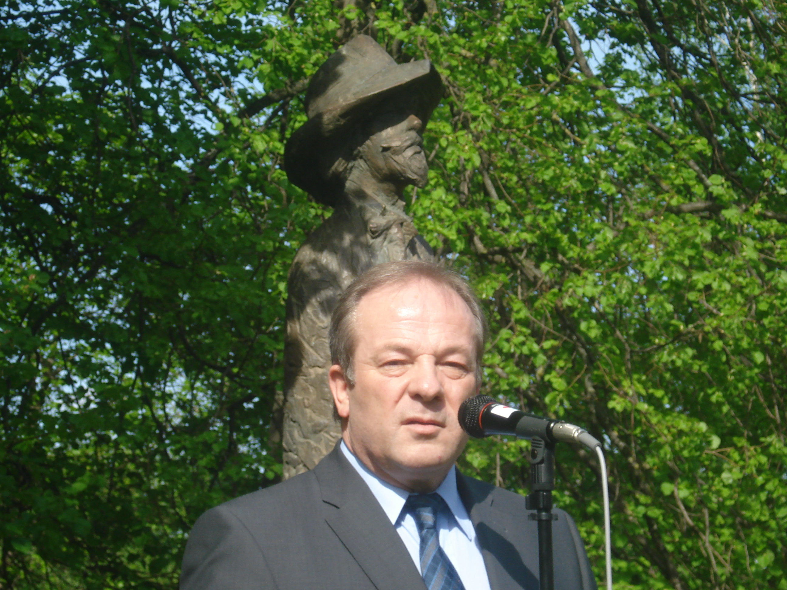 Romas Adomavičius, Vilnius Vice Mayor